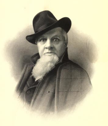 Dan Rice